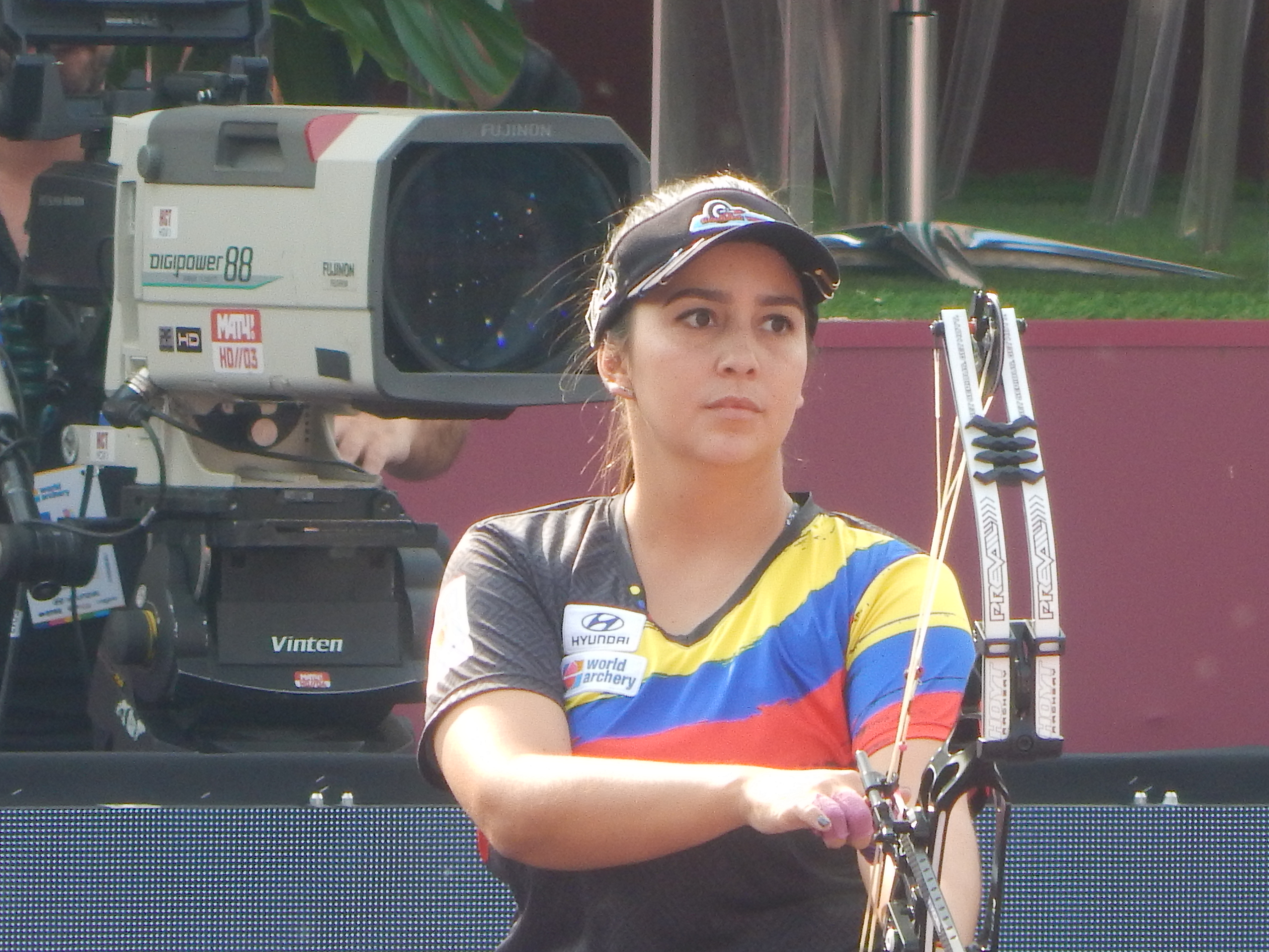 2019 Archery World Cup Final in Moscow. Women's compound.